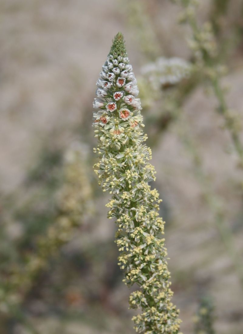 Weiße Resede (Reseda alba), Resedengewächse (Resedaceae) - Italien/Italia/Italy: Marche, Prov. Ancona, Cesano NW Senigallia; Sandstrand